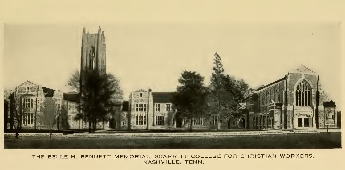 Photograph of the Belle H. Bennett Memorial Hall (with bell tower) at the Scarritt College for Christian Workers in Nashville, Tennessee. Image taken from the illustration after page 292 of the 1928 biography by Mrs. R.W. MacDonell of suffragist and Southern Methodist missionary leader Belle Harris Bennett.